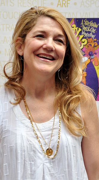 Actress Victoria Clark attends 13th Annual Broadway Barks Benefit on July 9, 2011 at Shubert Alley in New York City. (Photo © Nick Stepowyj)